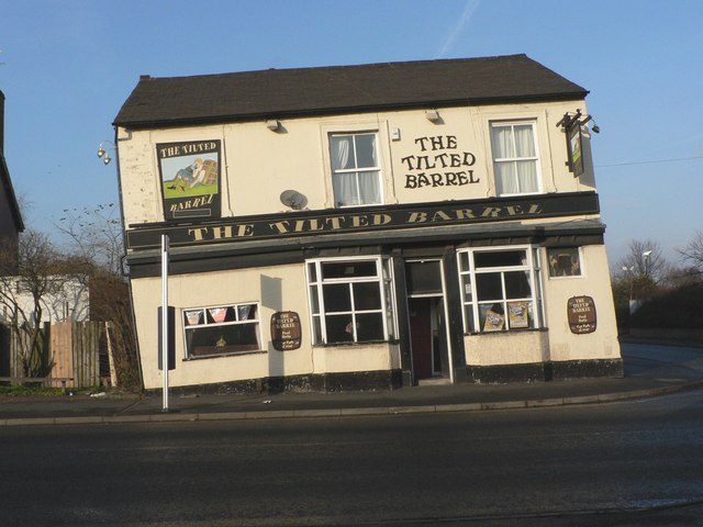 The Tilted Barrel Public House, High St, Princes End The photo IS upright, notice the internal door.